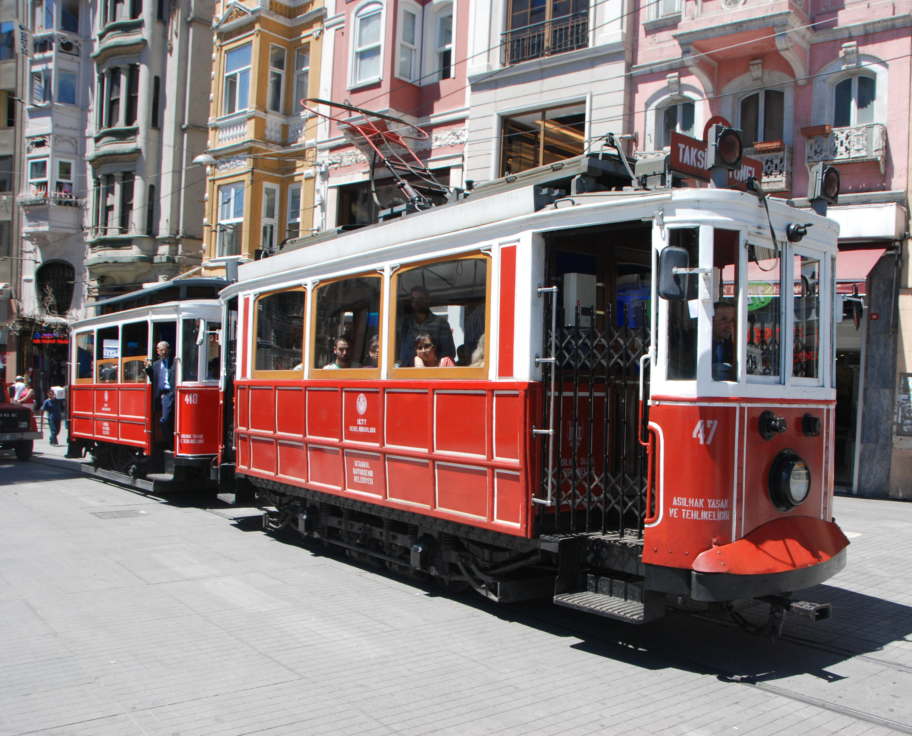 Nostalgic tram on İstiklal Avenue in Beyoğlu, Istanbul.